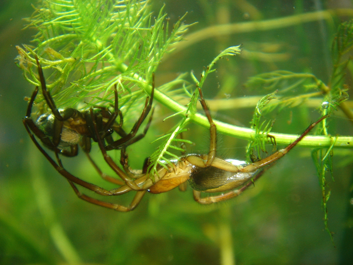 Pair of Diving bell spiders (♀ left, ♂ right), found at Wien Prater park in Vienna, Austria. Geocoding not applicable as the picture was taken in an aquarium.